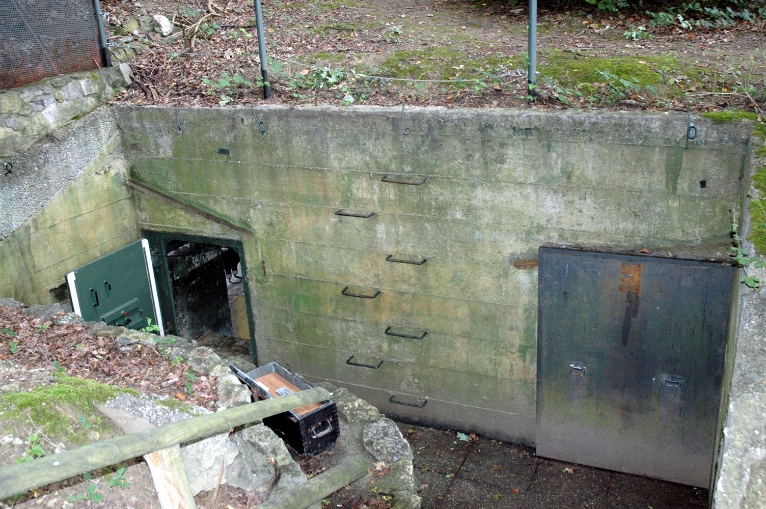 entries of museum bunker 346 / Ro 1 of the Neckar-Enz line.